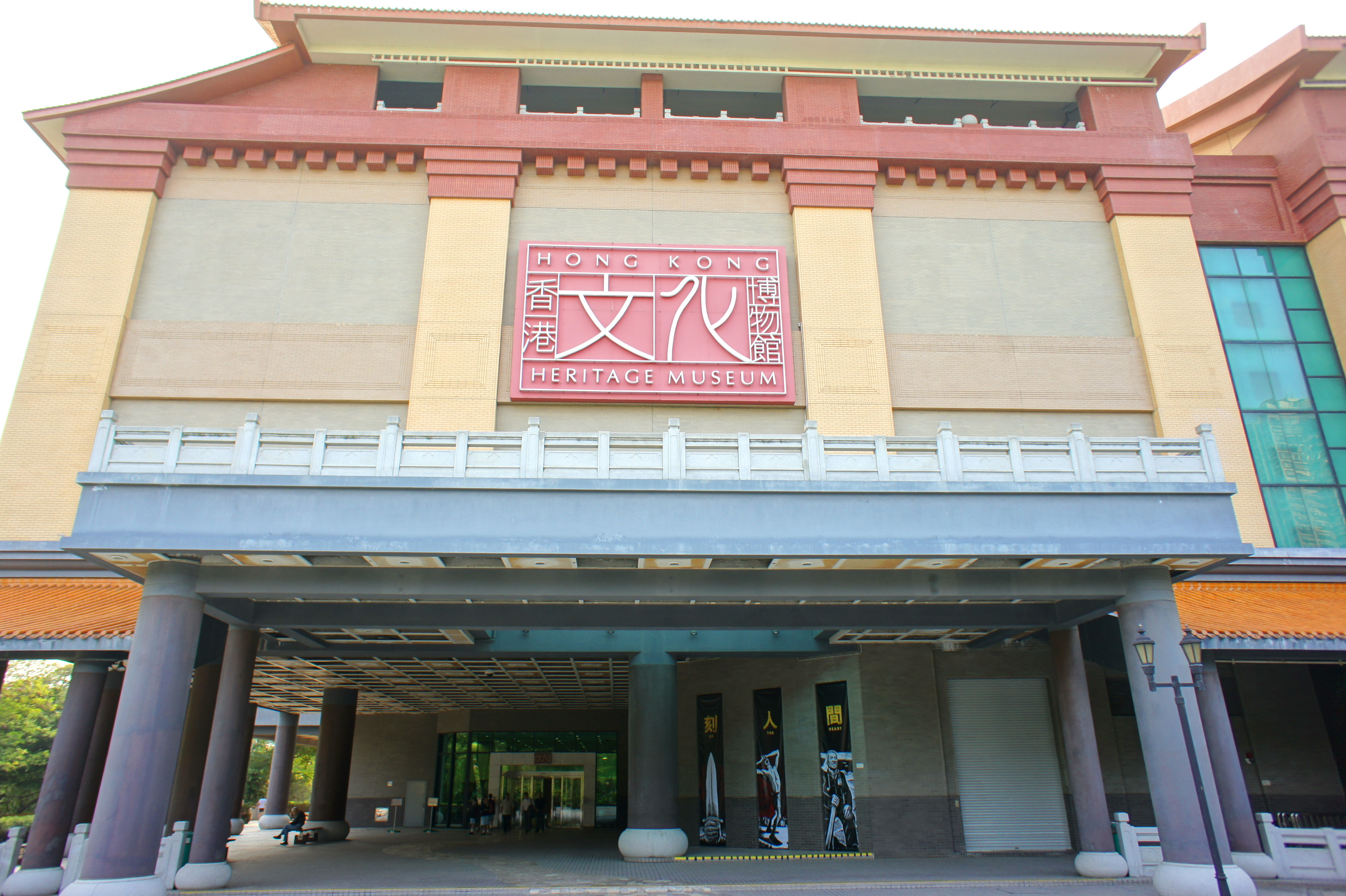 The side entrance of the Hong Kong Heritage Museum, Sha Tin, New Territories, Hong Kong.